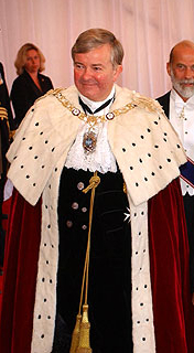 Gavyn Arthu, 2003 Lord Mayor of London